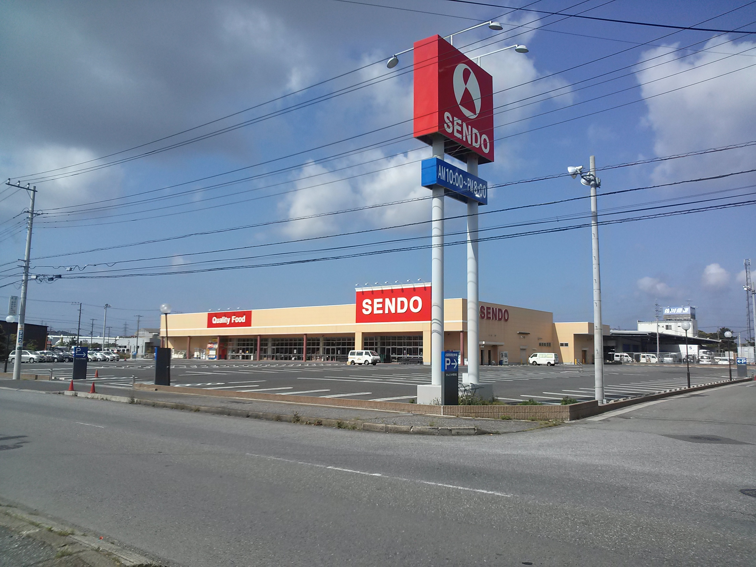 Sendo Kisarazu